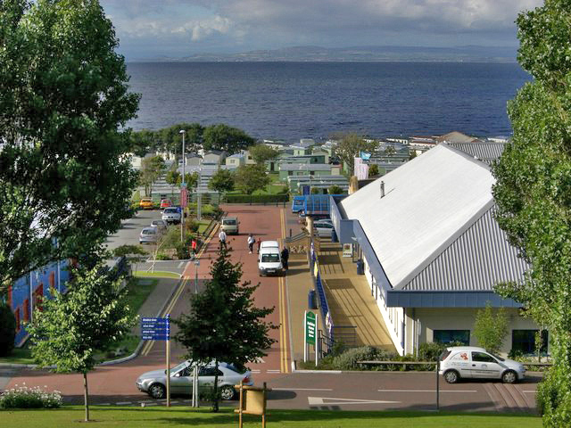 Craig Tara holiday park, nr. Ayr. The majority of the land usage in square NS3018 is the Haven Craig Tara holiday park, the successor to Butlins Ayr. The building on the right is the main reception building.